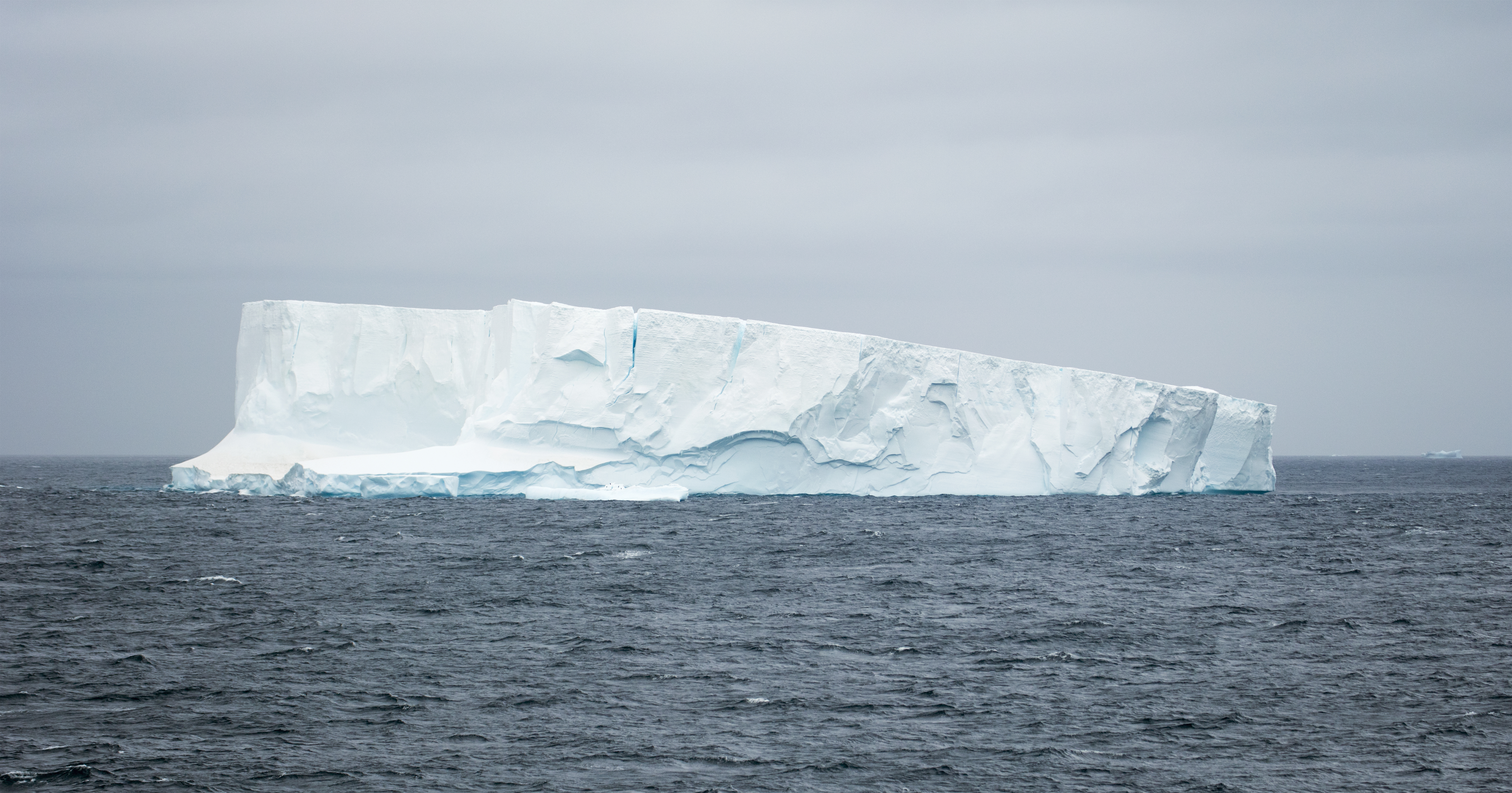 Iceberg, Southern Ocean, off Elephant Island, South Shetland Islands